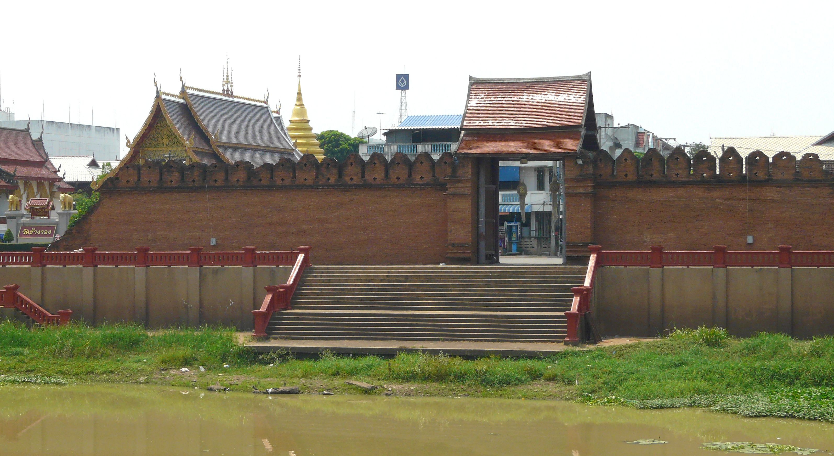 City wall, Lamphun, Thailand; northeastern gate